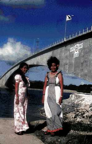 Palauan women by former Koror-Babeldaob Bridge